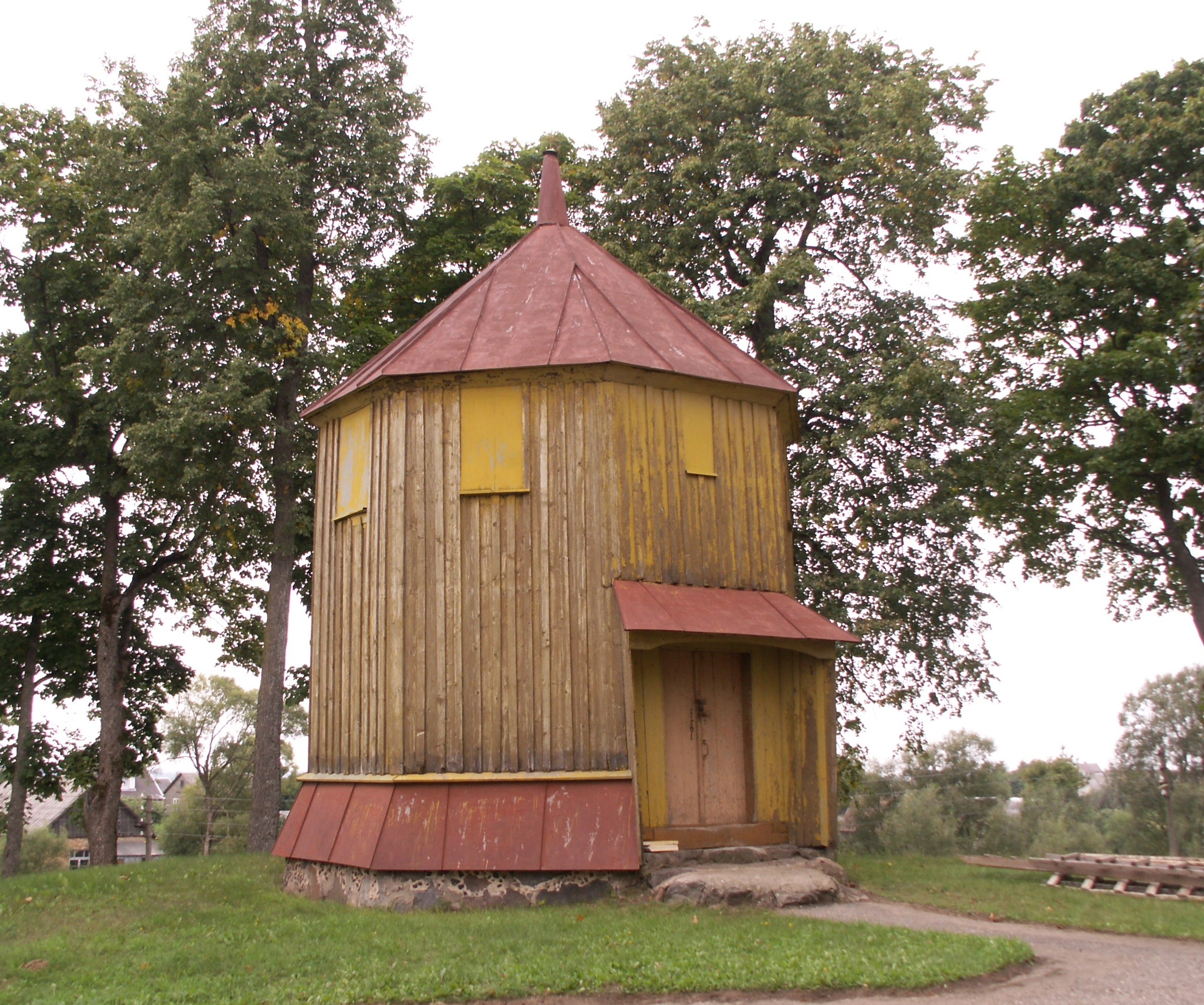 Pavandenė church, Lithuania